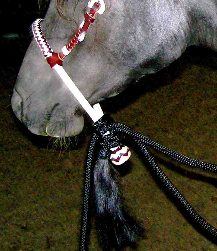 Close up of a bosal and a mecate on a horse